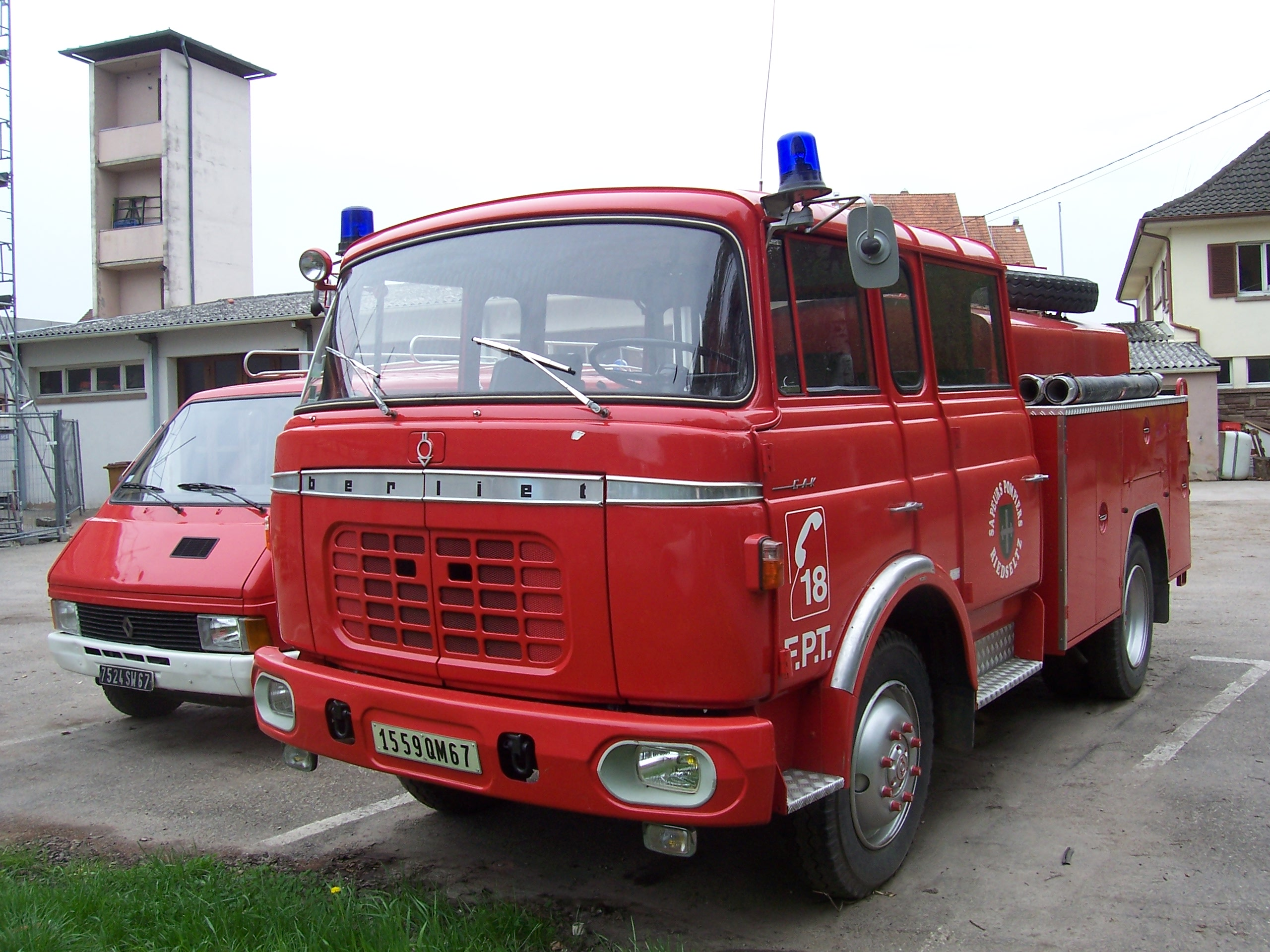 A Berliet GAK fire engine in Wissembourg, Bas-Rhin (Alsace), France